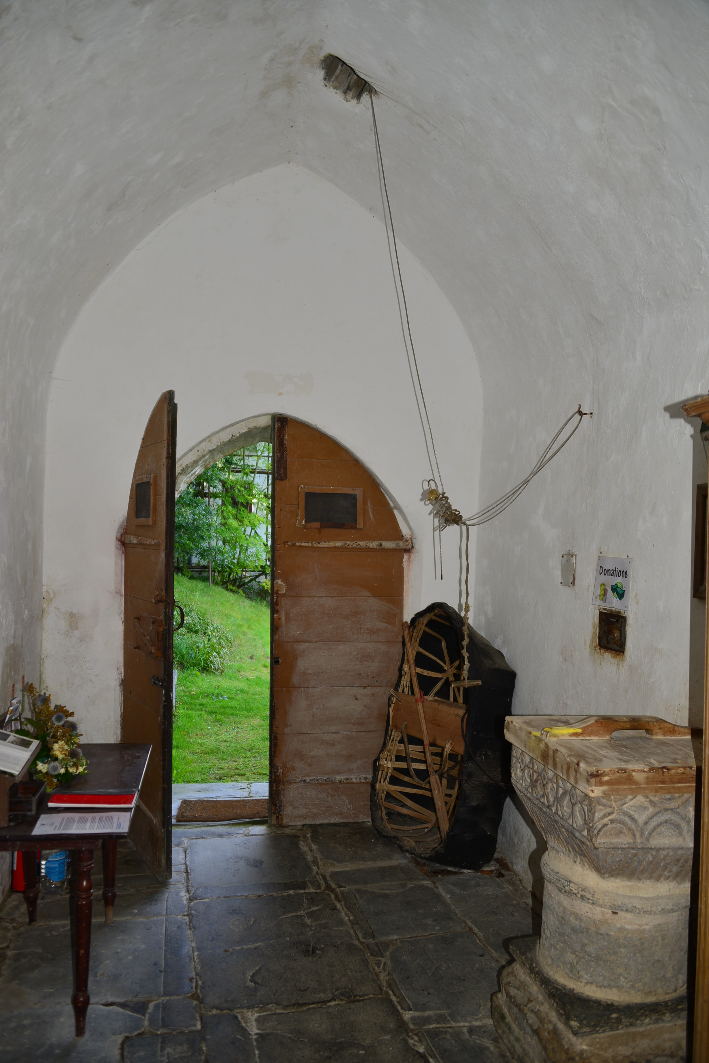 Manordeifi Old Church, an unused church in Pembrokeshire, Wales, in which it was traditional to keep a coracle for ferrying parishioners across the River Teifi when it flooded.